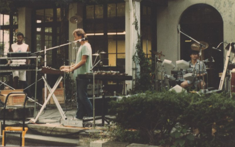 Exotic Birds during a sound check. From L to R: Tim Adams, Andy Kubiszewski and Tom Freer. Photo taken by User:Cuzuco September 8, 1984 in Cleveland, Ohio. Theta Chi Fraternity Party at Case Western Reserve University.